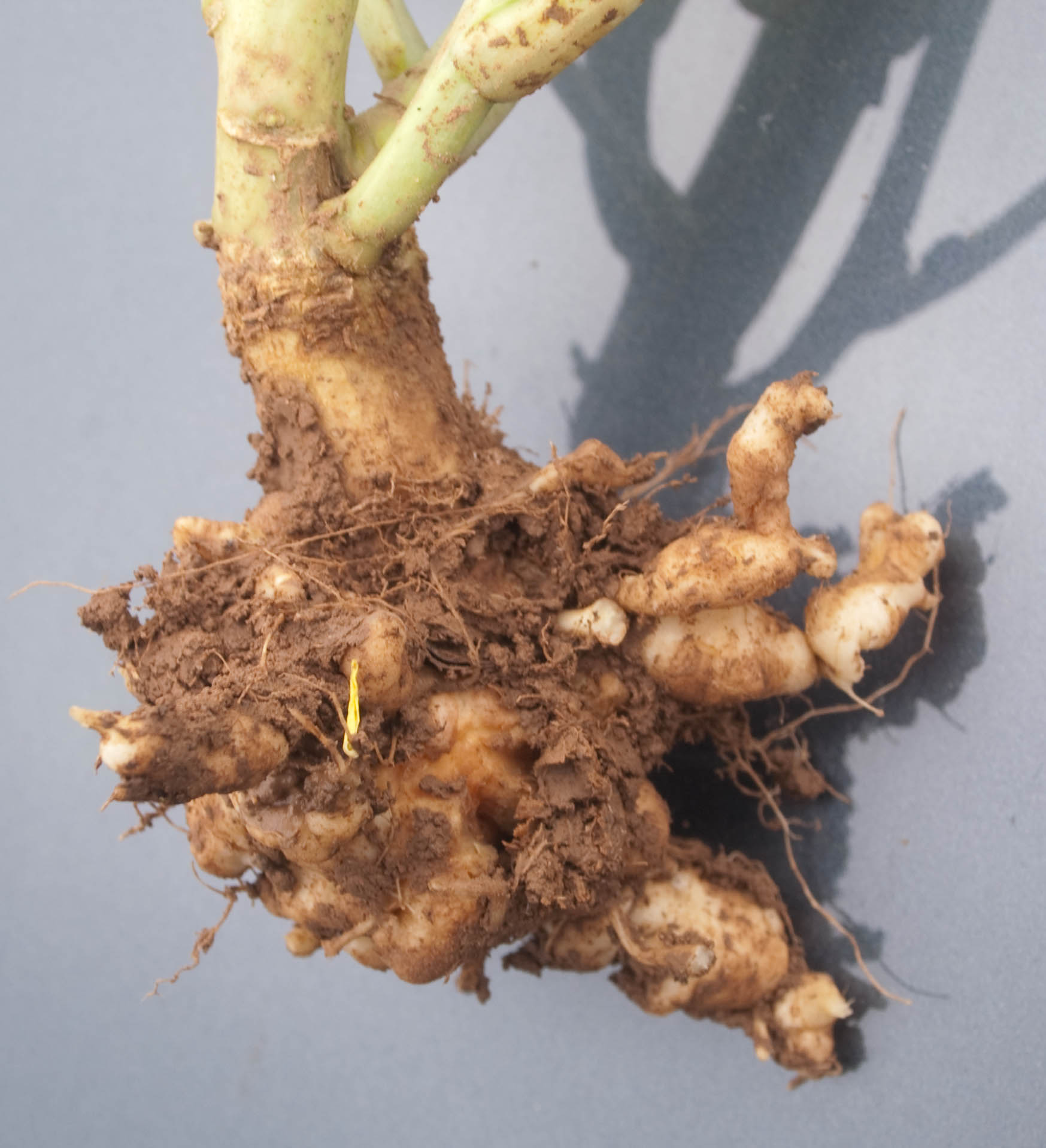 Plasmodiophora brassicae on oilseed rape